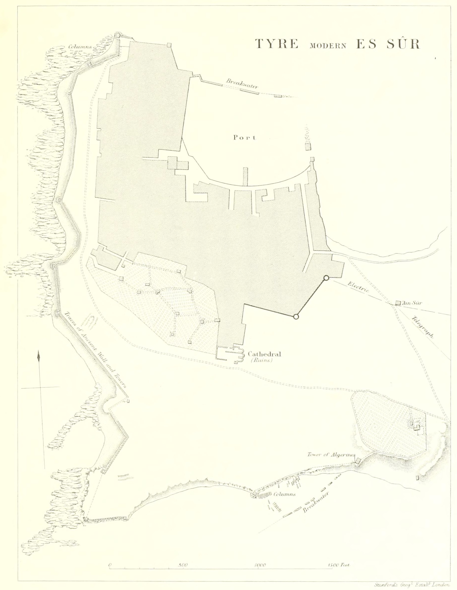 Tyre from the 1871-77 Palestine Exploration Fund Survey of Palestine